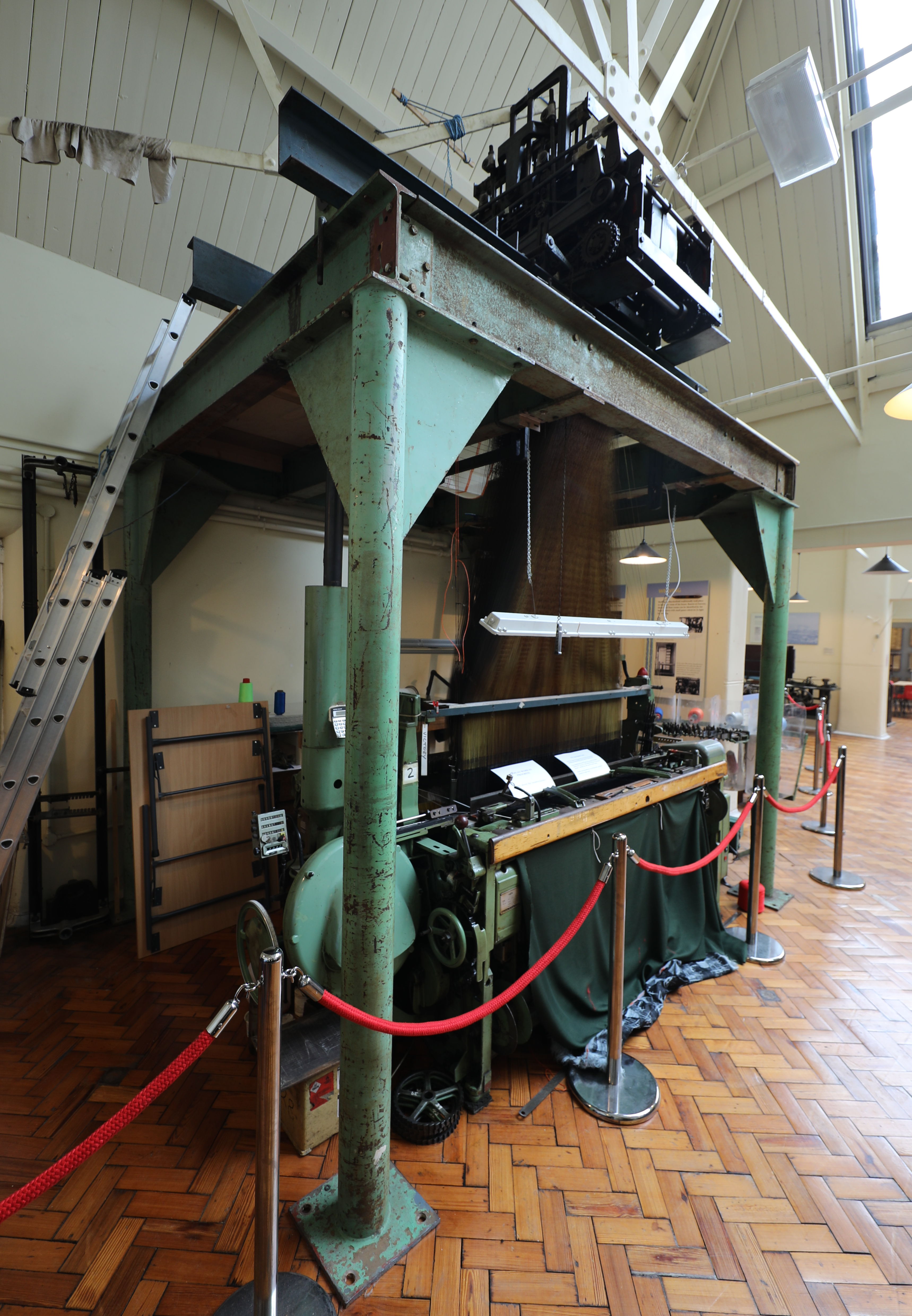 ruti rapier loom at Macclesfield silk museum